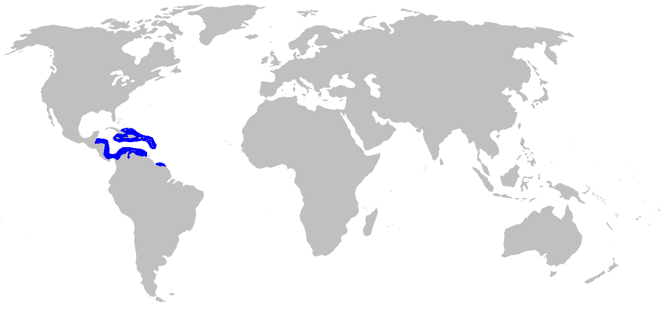 Distribution map for Scyliorhinus boa